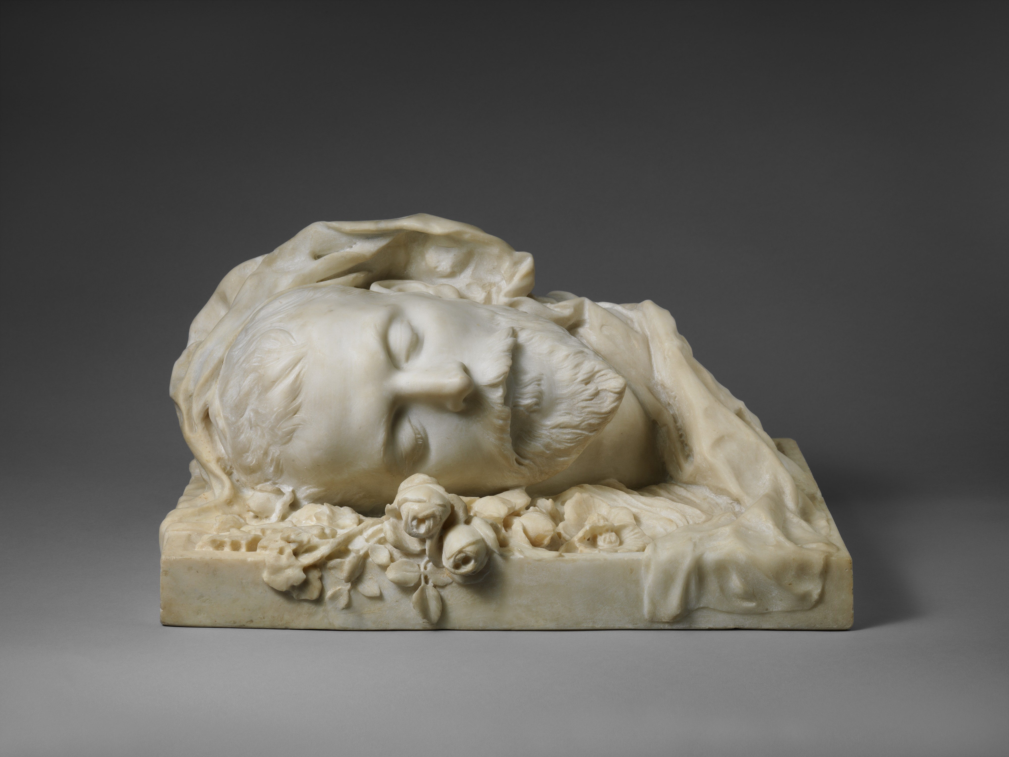 French, Paris; Head; Sculpture